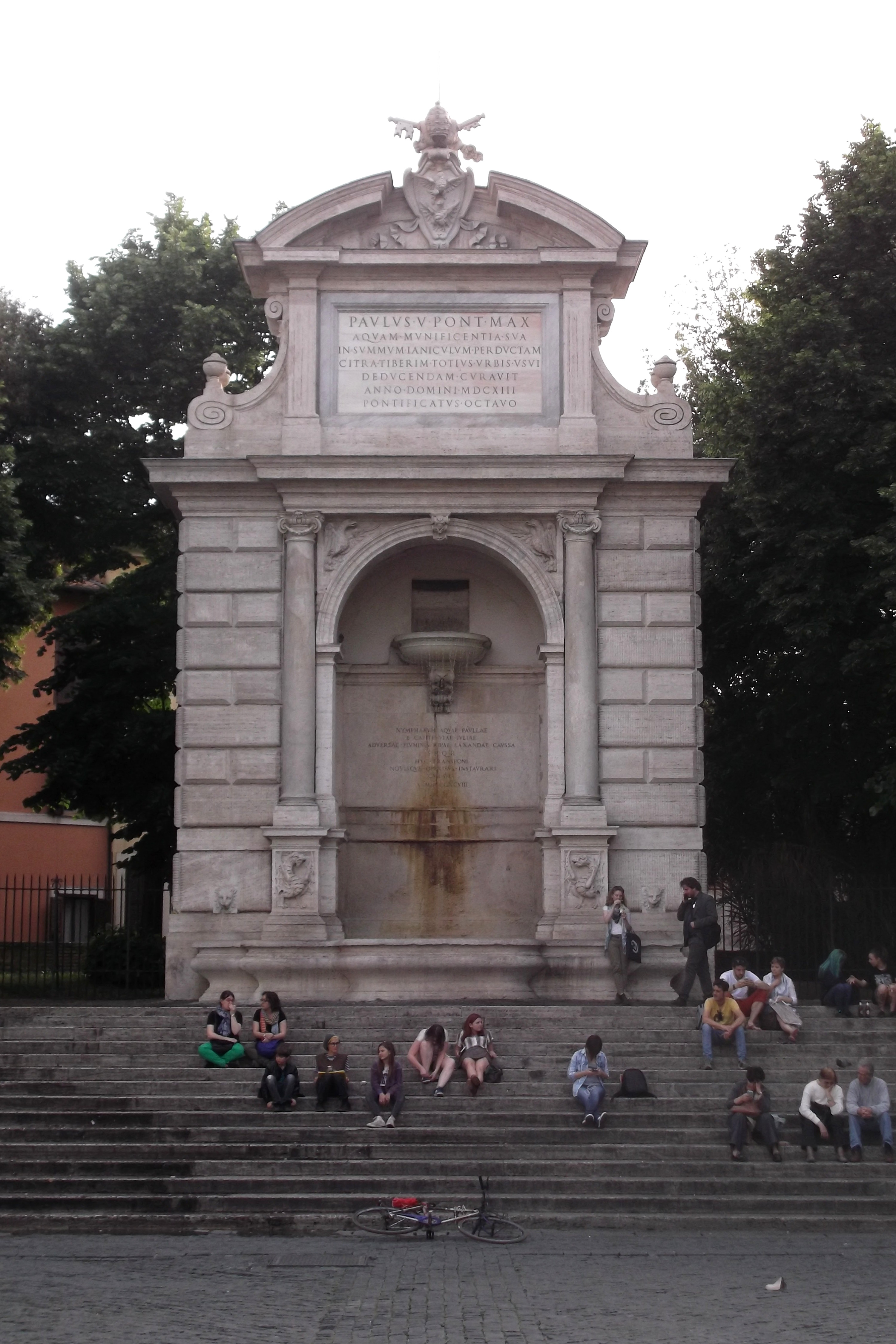 Fountain of the Hundred Priests, also called Fountain of Ponte Sisto, in Rome, Italy